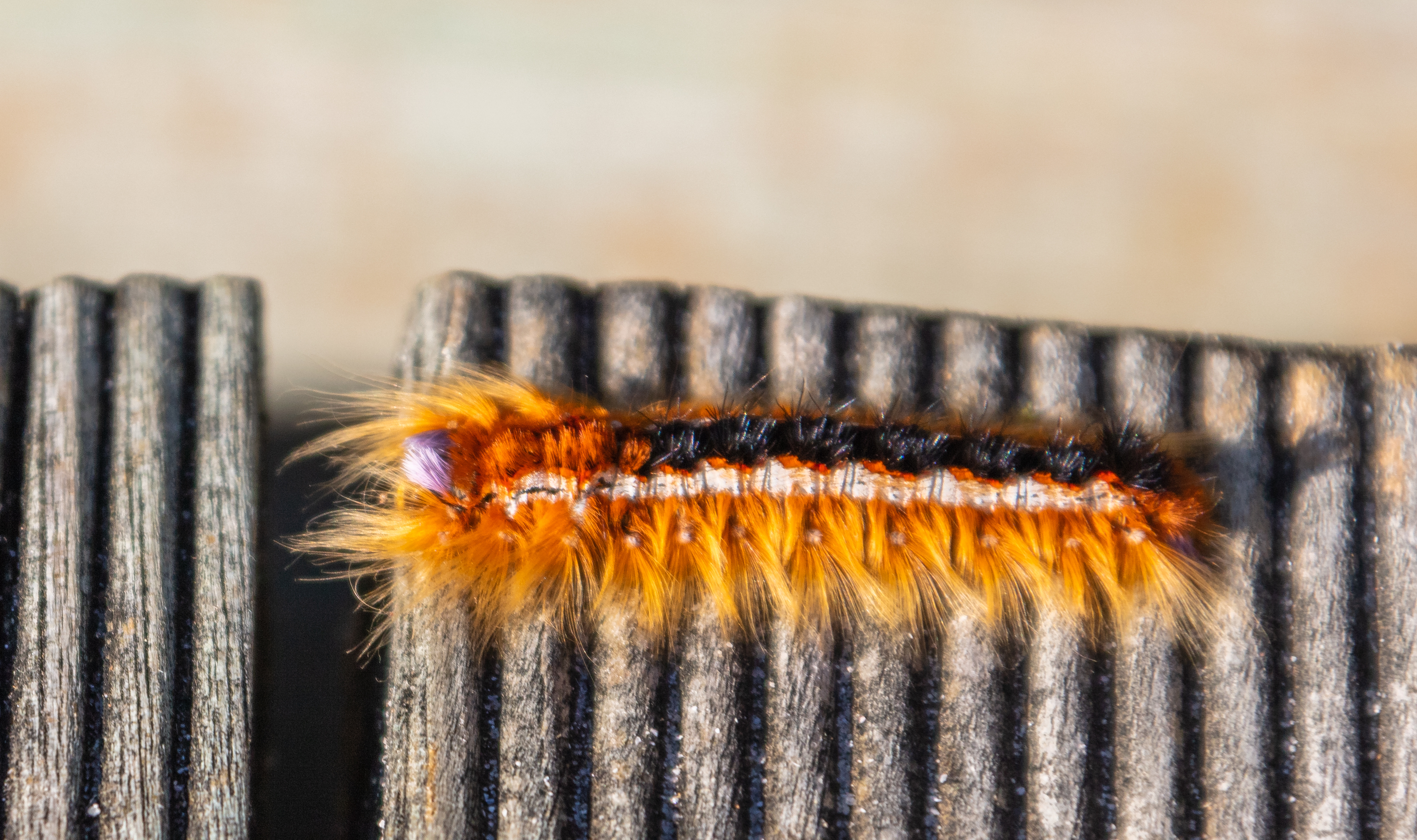 Cape lappet moth (Eutricha capensis), Boulders Beach, Simon's Town, South Africa